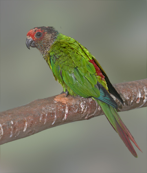 Painted Parakeet (Pyrrhura picta) - the subspecies on this photo, roseifrons, is now often considered a separate species, the Rose-fronted Parakeet (Pyrrhura roseifrons)